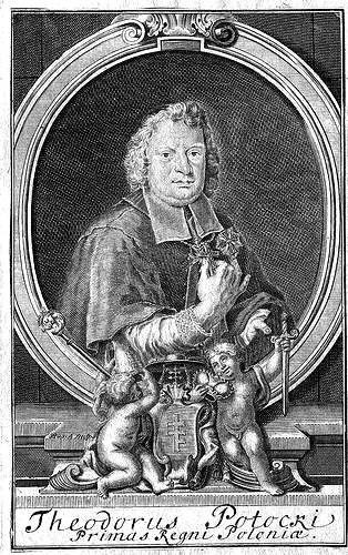 Teodor Andrzej Potocki